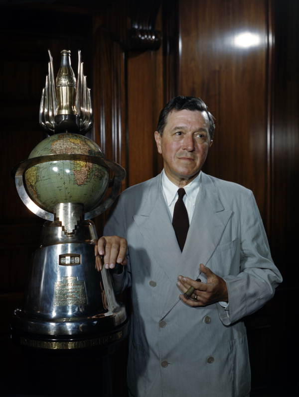 Persistent URL: Local call number: JJS2155 Title: Robert Winship Woodruff, President of the Coca-Cola Company Date: February 1944 General note: Robert Winship Woodruff (December 6, 1889 - March 7, 1985) was the president of The Coca-Cola Company from 1923 until 1954. Physical descrip: 1 transparency - col. - 5 x 4 in. Series Title: Joseph Janney Steinmetz Collection Repository: State Library and Archives of Florida, 500 S. Bronough St., Tallahassee, FL 32399-0250 USA. Contact: 850.245.6700.